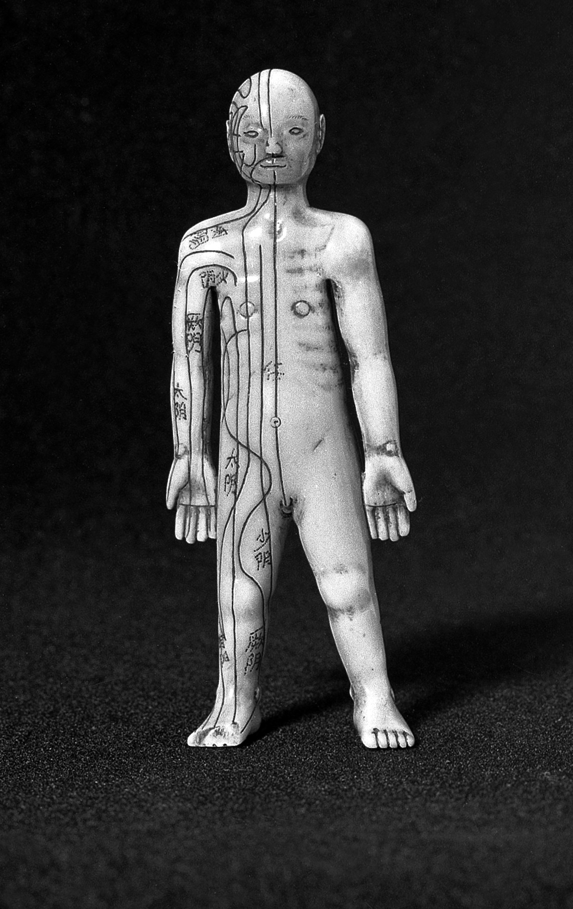 Japanese anatomical figure, male showing course of veins (?). Carved ivory. Wellcome Images Keywords: japanese medicine